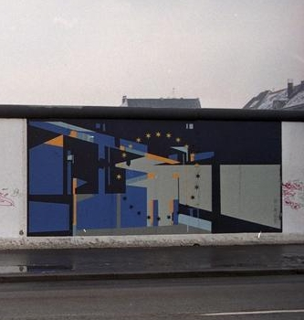 Part of Berliner Mauer - painting by Bodo Sperling